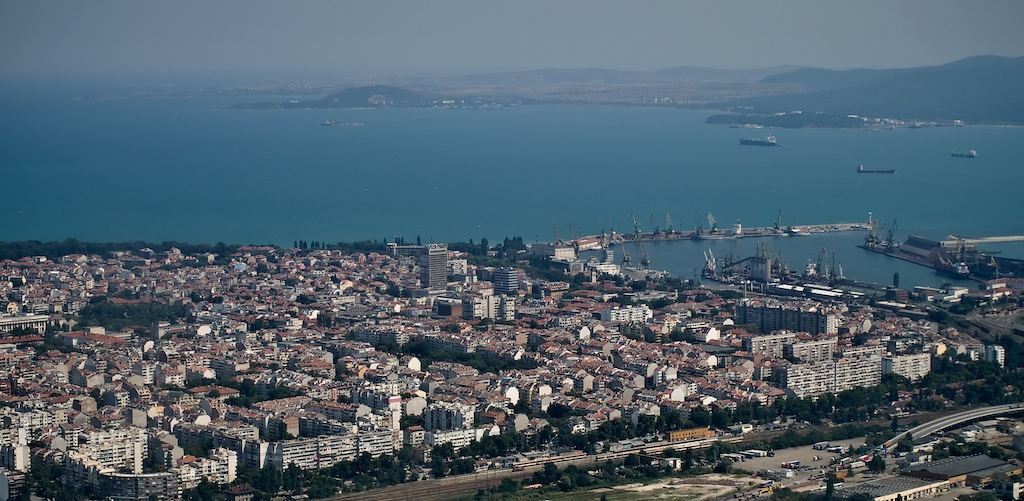 Burgas is the fourth largest city in the Republic of Bulgaria.